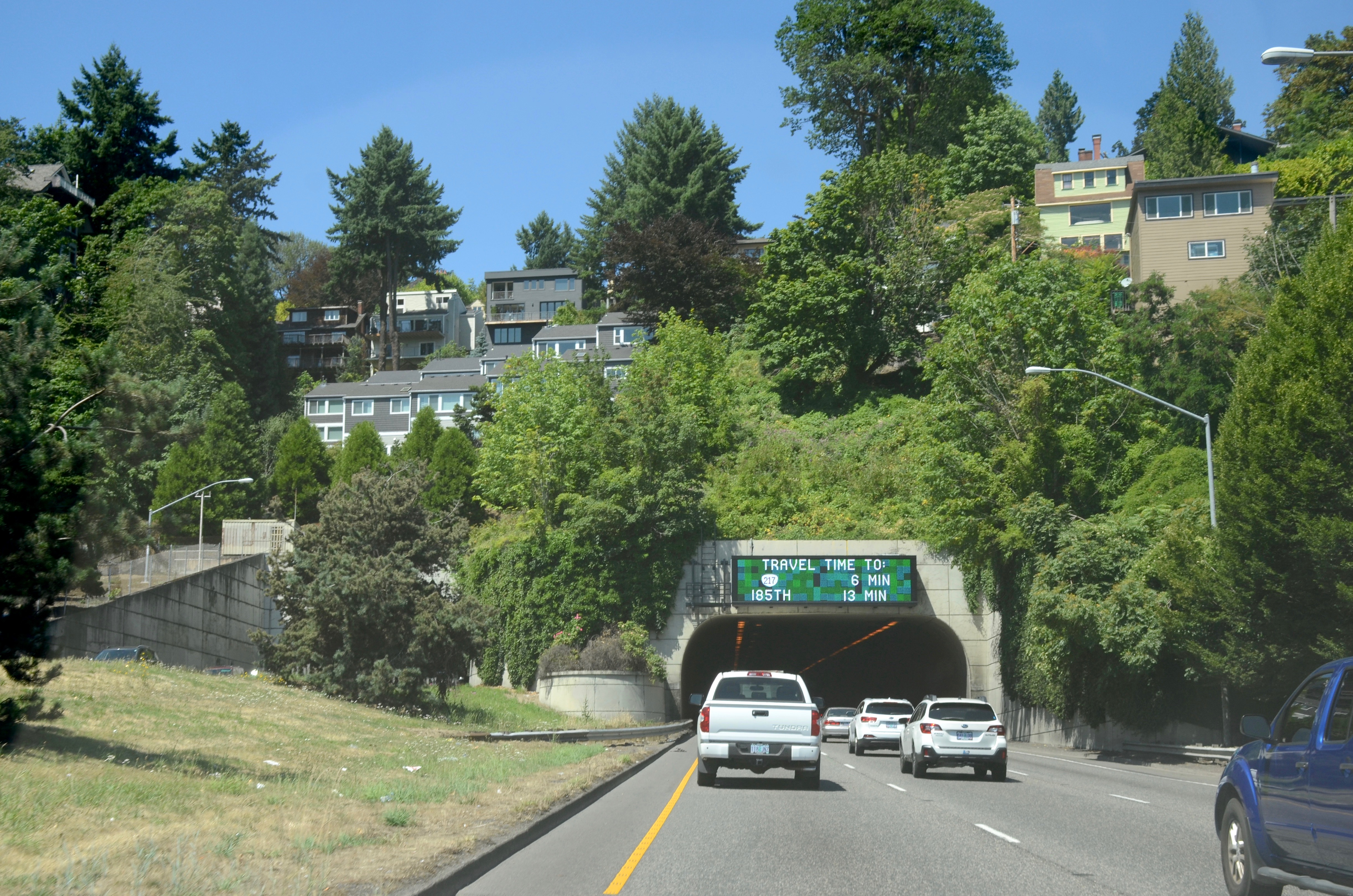 Approaching the east portal of the westbound Vista Ridge Tunnel, on the Sunset Highway (part of U.S. Highway 26), just west of downtown Portland, Oregon.